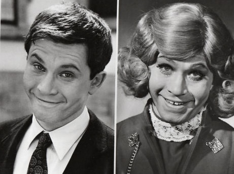 Publicity photo of Peter Kastner from the television program The Ugliest Girl in Town.